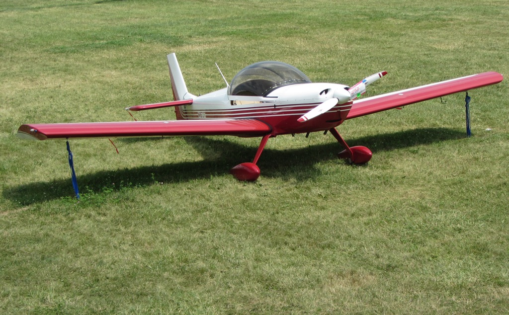 Zenair CH601XL Taildragger